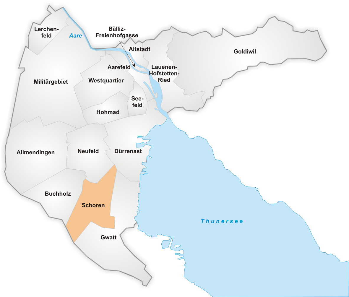 Thuner Quarter Schoren